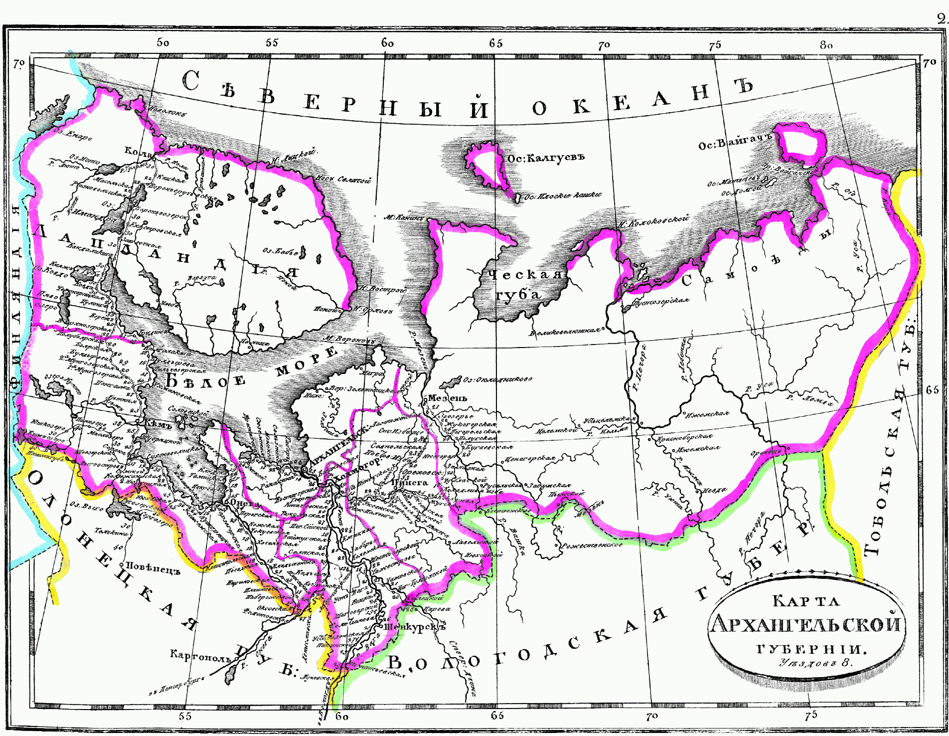 Map of Arkhangelsk Governorate, 1835